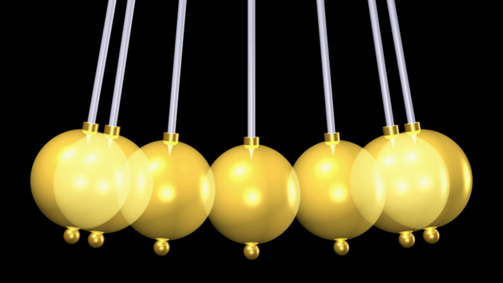 Movement of the pendulum.